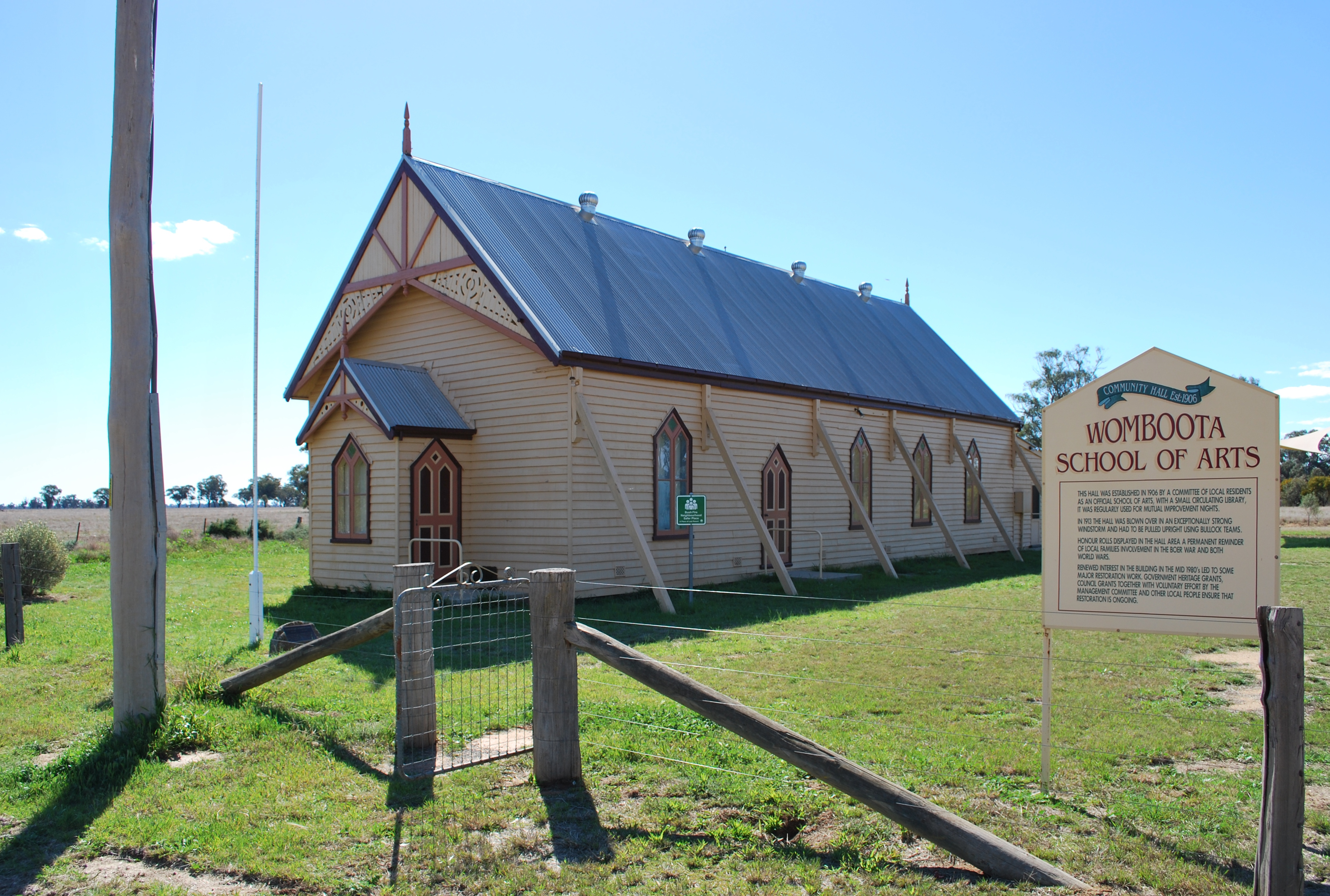 School of Arts hall at Womboota, New South Wales